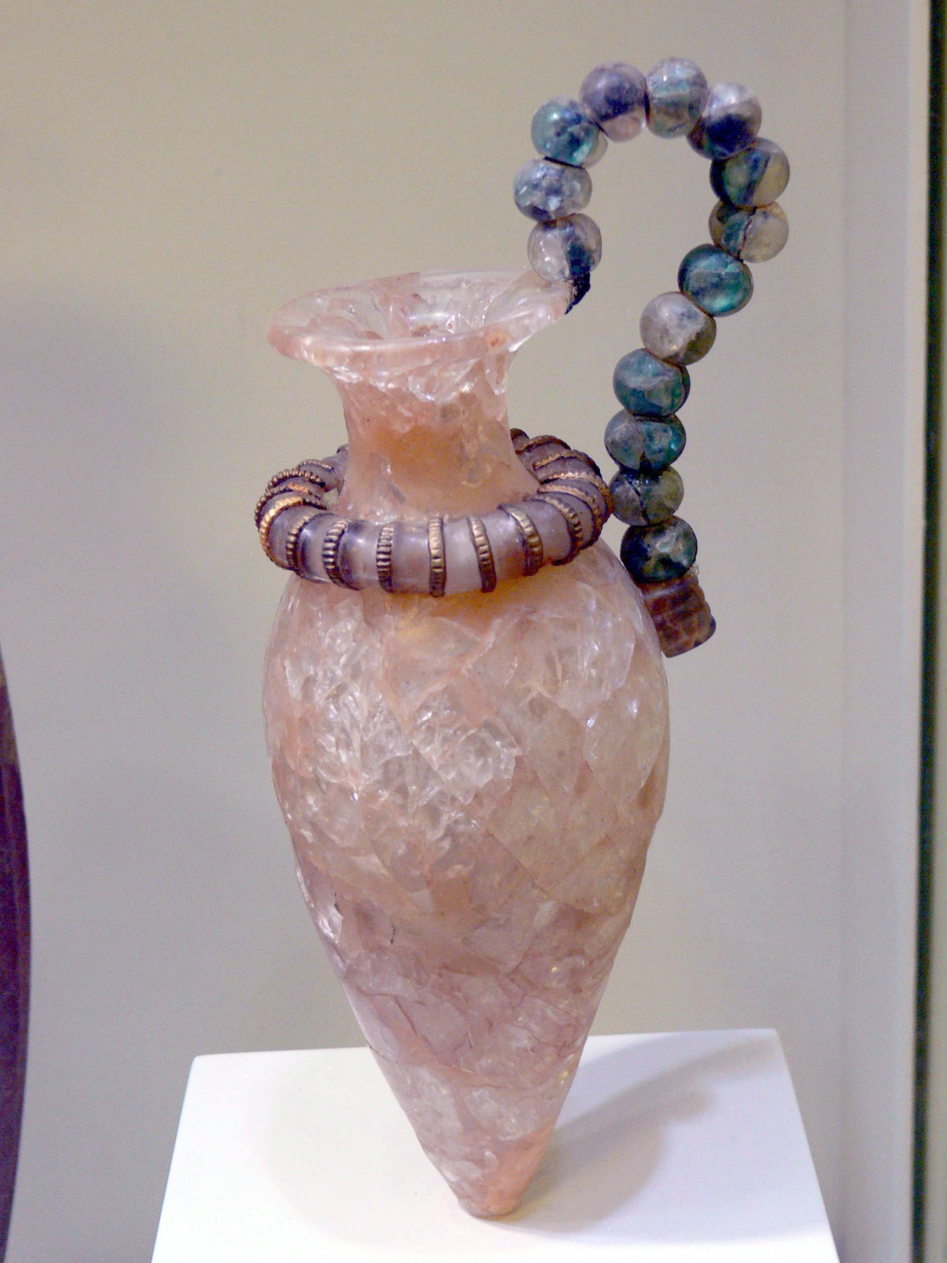 Archaeological Museum of Herakleion. Small rhyton made of cristal from Kato Zakros ( 1700 - 1450 B.C ).